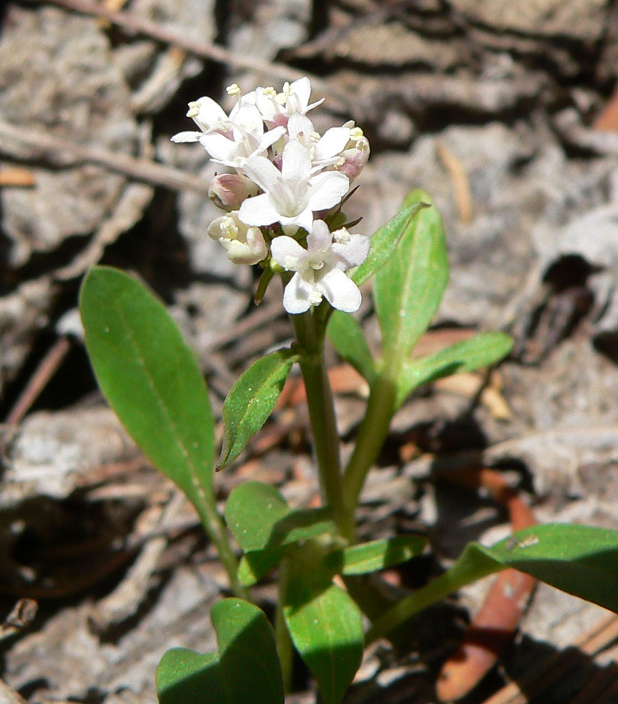 Valeriana acutiloba var. pubicarpa in Lee Canyon alongside the Bristlecone Trail near the trailhead, Spring Mountains, southern Nevada (elev. about 2700 m)